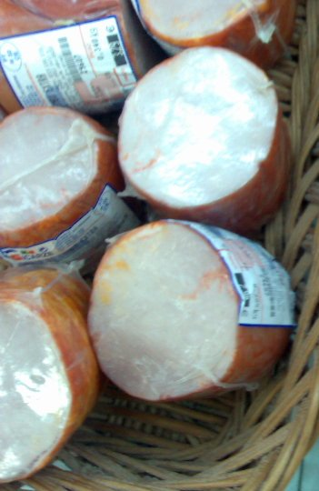 Paios, tradicional portuguese sausages.